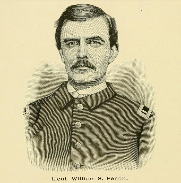 Leitenant William Perrin (Battery B, 1st Rhode Island Light Artillery, temporary commander at Gettysber battle)